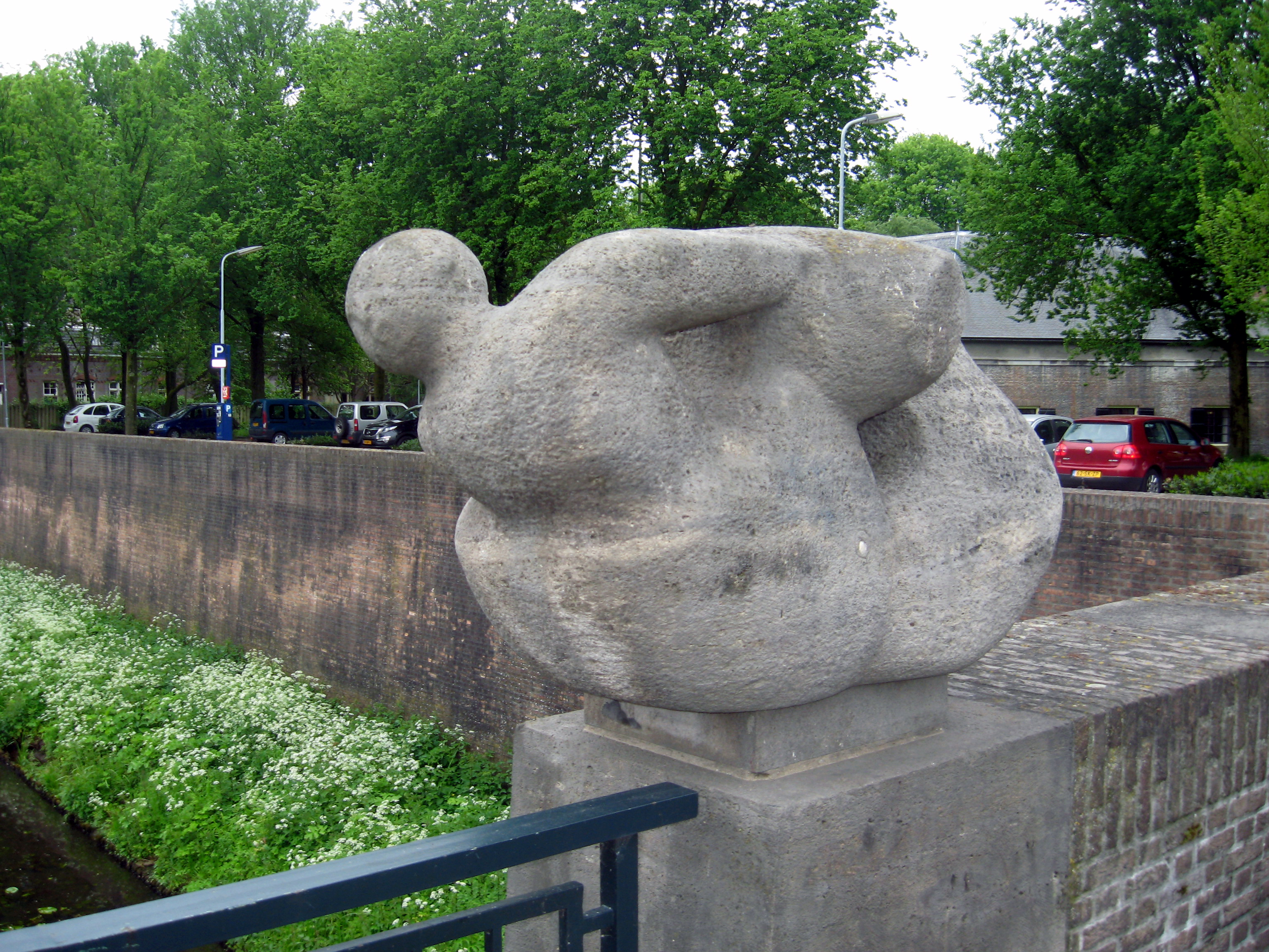 Jonah and the Whale